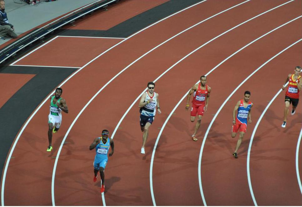 Rooney in 400m semi, Yousef Ahmed Masrahi, Ramon Miller, Martyn Rooney, Bryshon Nellum, Luguelín Santos, Kévin Borlée